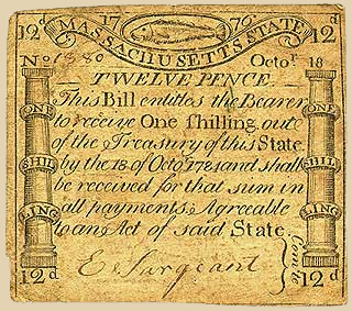 The front (or face or obverse) of a 12-pence note of Massachusetts currency issued in 1776. Known as a "codfish" bill, the design was engraved by Paul Revere.